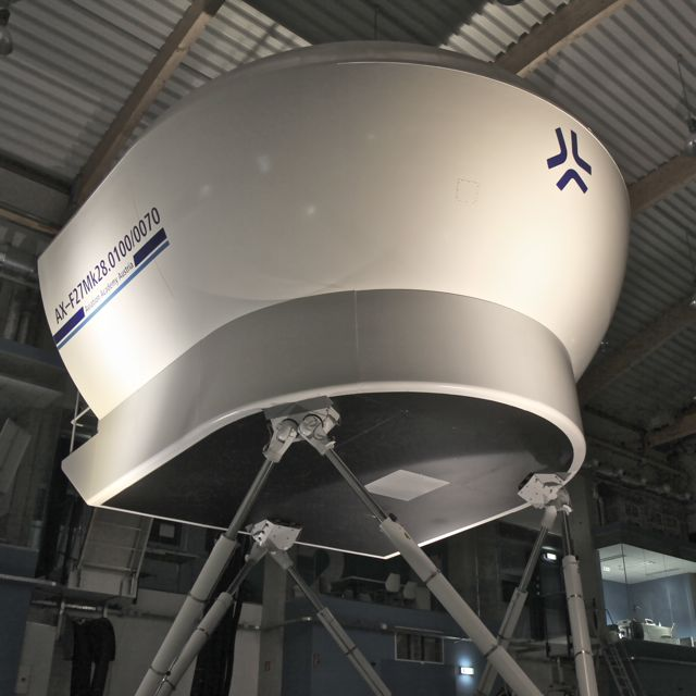 AXIS F70-100 Full Flight Simulator, EASA Level D